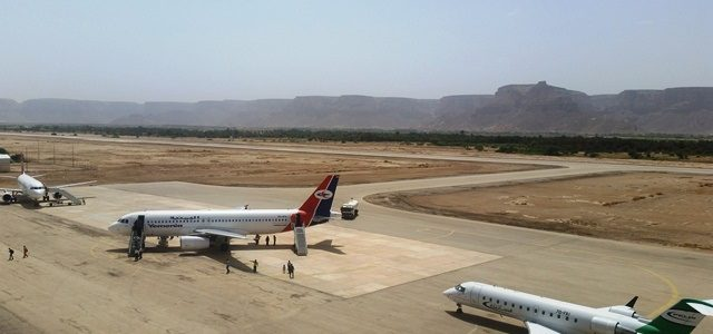 A picture of the very first flights that took off from Seiyun Airport after the Yemeni Civil War